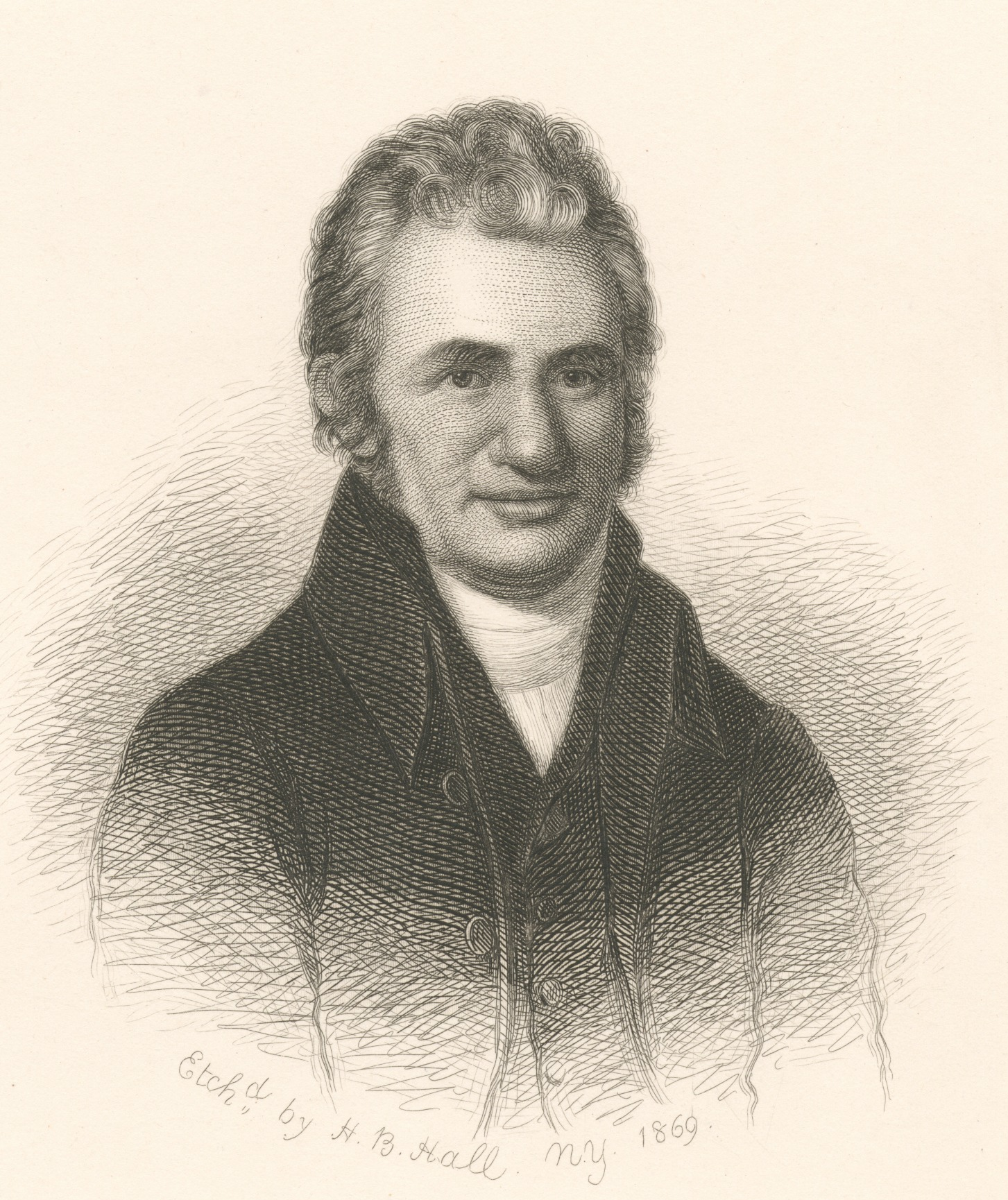 EM3150